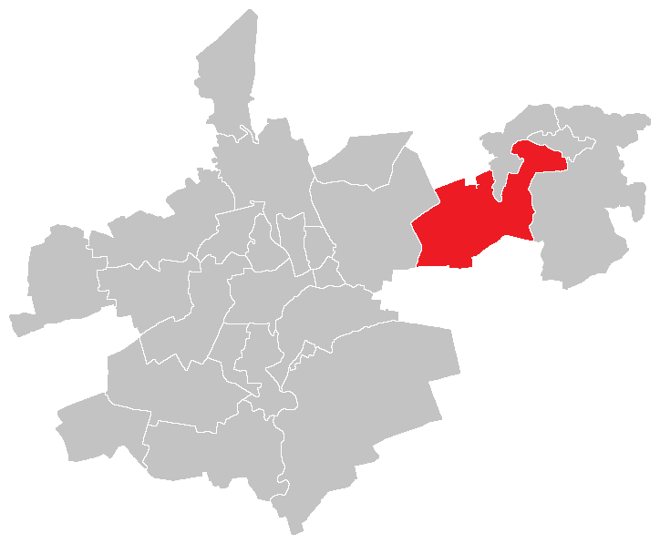 Location map of Olomouc district Droždín